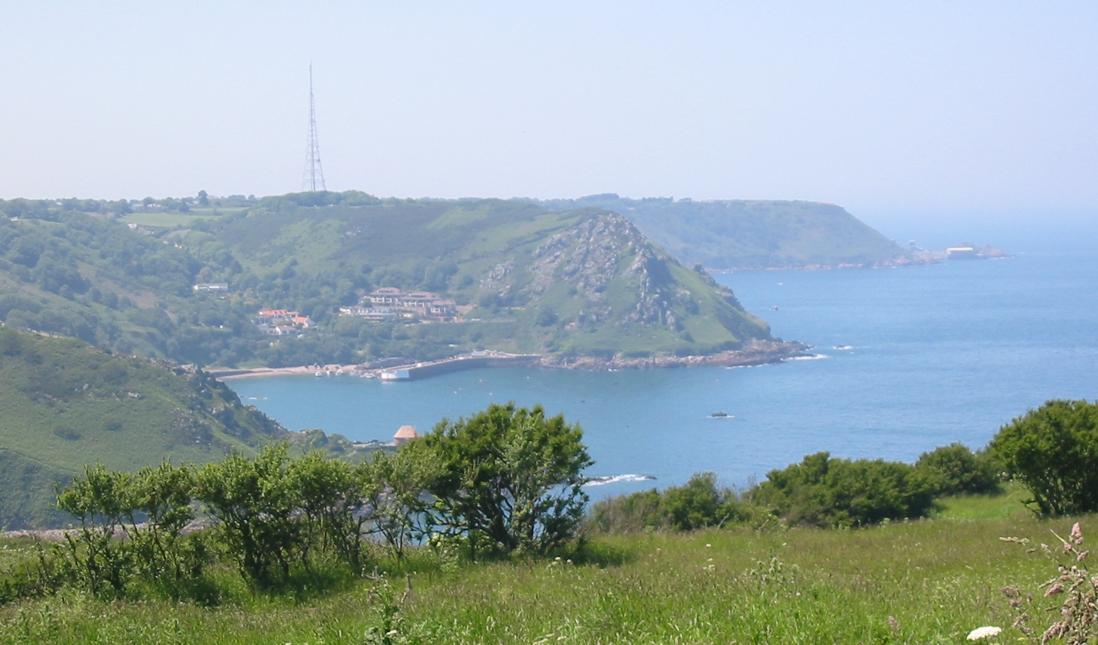 Sights of the Northern Parishes of Jersey Nrf: Eune touônnée au mais d'Mai siez les Nordgiens en Jèrri